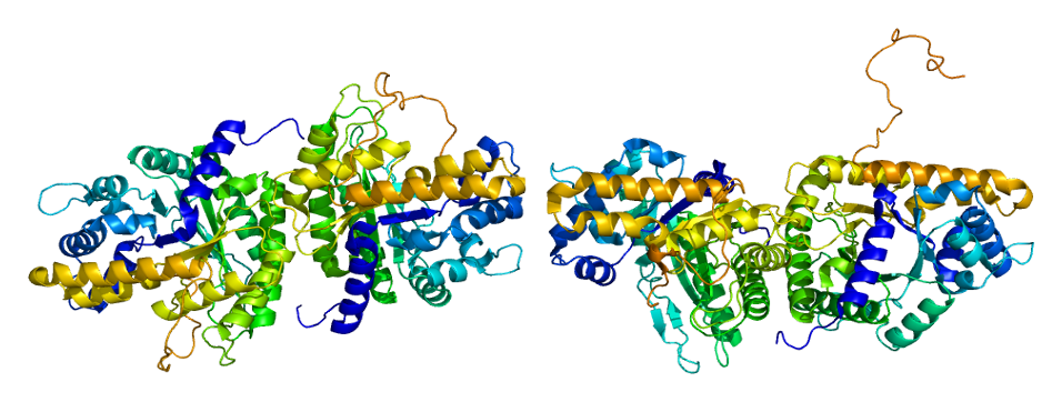 Structure of the ALDOB protein. Based on PyMOL rendering of PDB 1fdj.